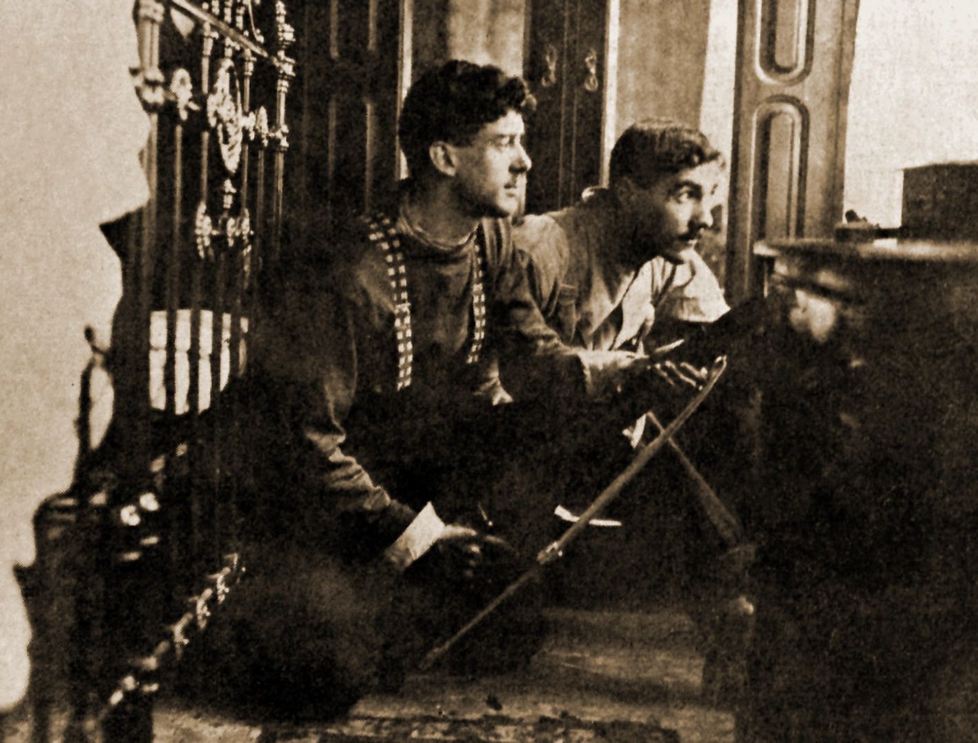 The Siege of Sidney Street of January 1911. The caption in the ILN reads: "Scots Guards on active service in Sidney Street: Two of the men firing from a bedroom opposite the beseiged house"